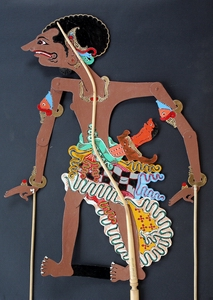 Sapardan, wayang kulit figure from the wayang shadow play Serat Menak Sasak